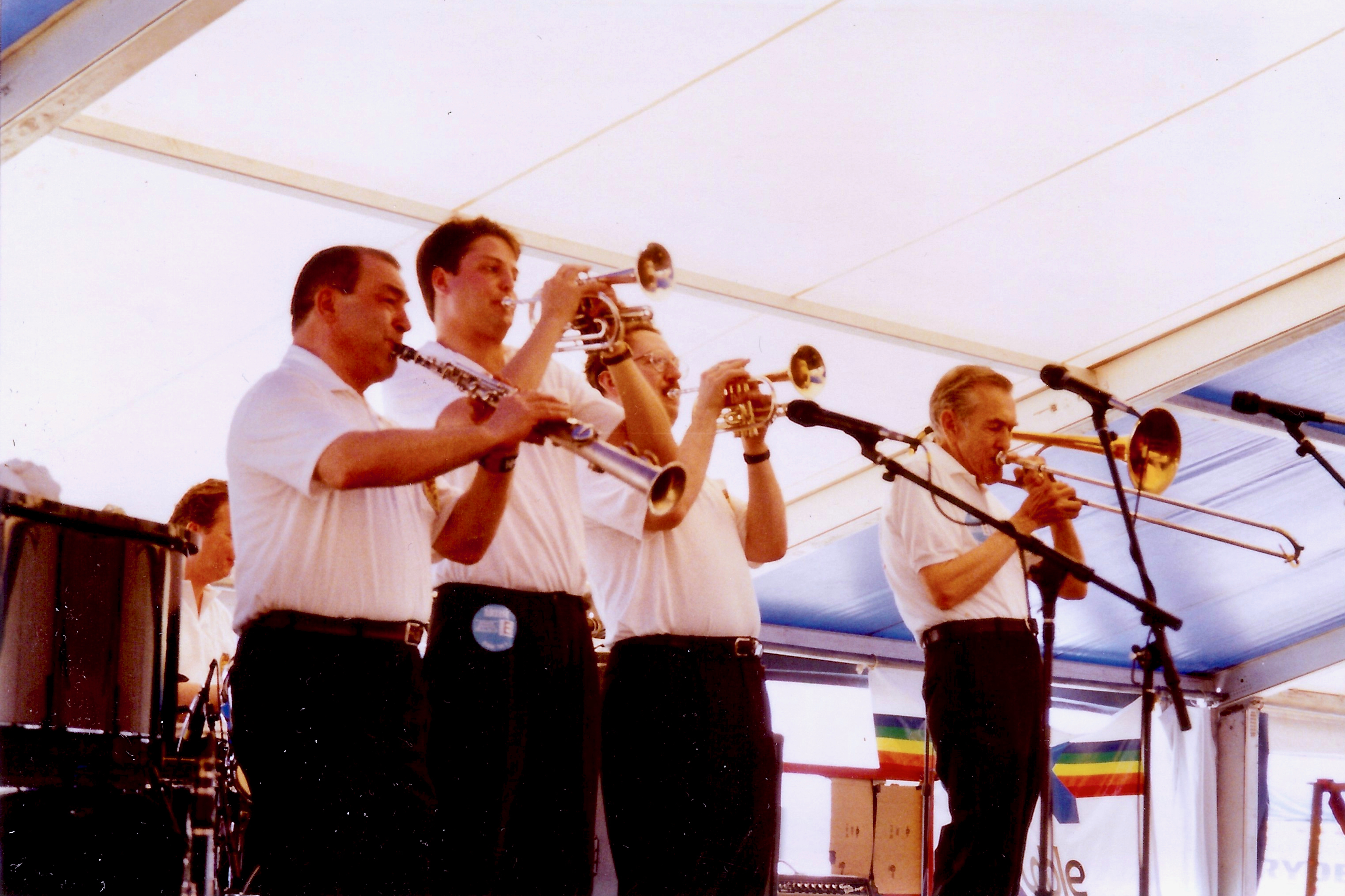 New Orleans Jazz Fest 1993. Frontline of Jacques Gauthe Creole Rice Jazz Band: Gauthe, clarinet; Duke Heitger and Chris Tyle, cornets; Tom Ebert, trombone.